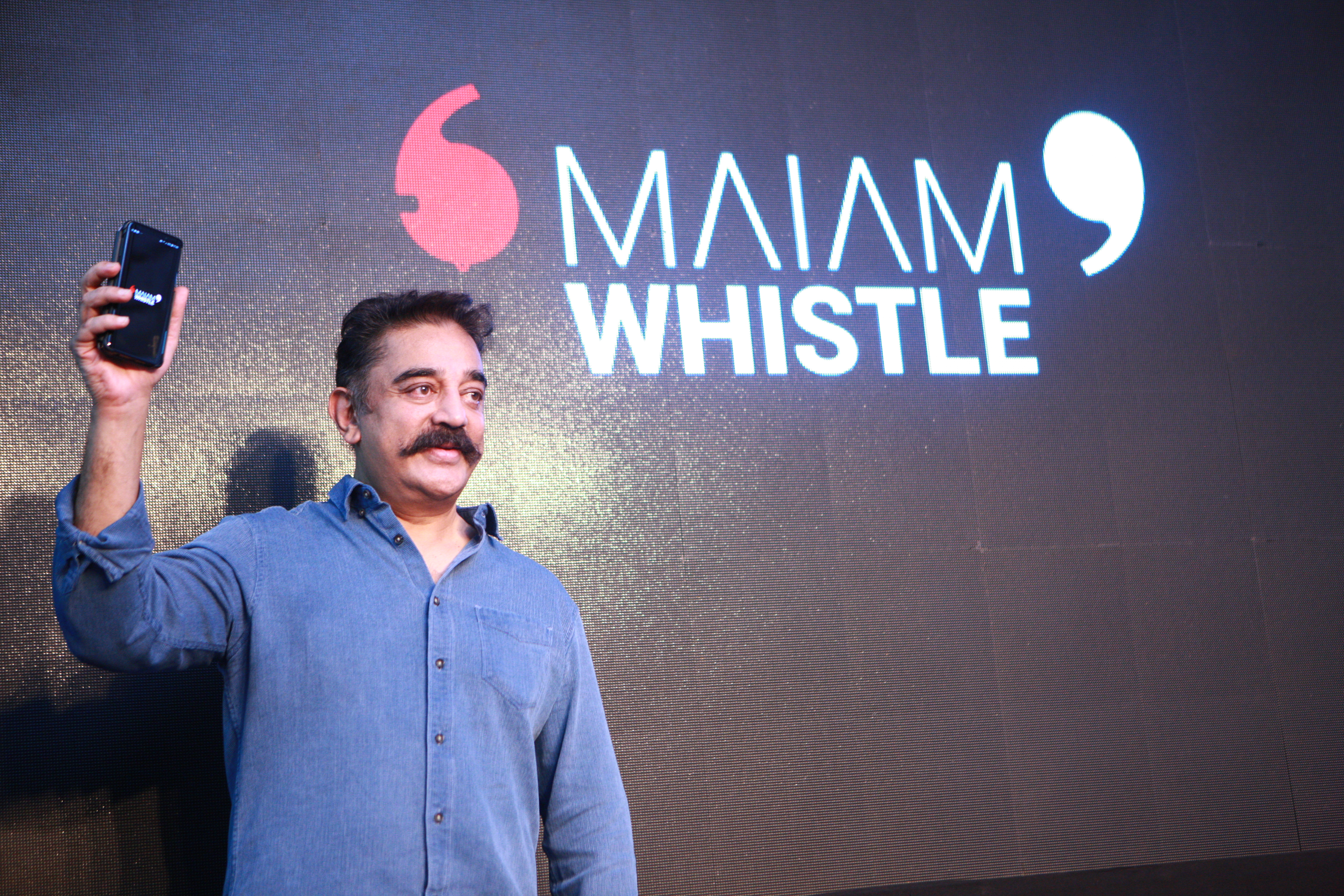 Maiam Whistle is a community driven listening tool for MNM party members to raise and report issues that plague citizens of our state of Tamizh Nadu. Maiam Whistle addresses this very concern of raising an issue anonymously, following and mobilizing citizens support around the issue. Maiam Whistle was released exclusively for MNM party members